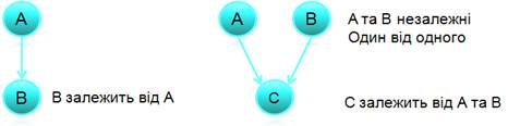 Рисунок 1.1 – Приклад графів залежностей по задачам